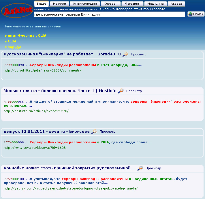 AskNet Global Search